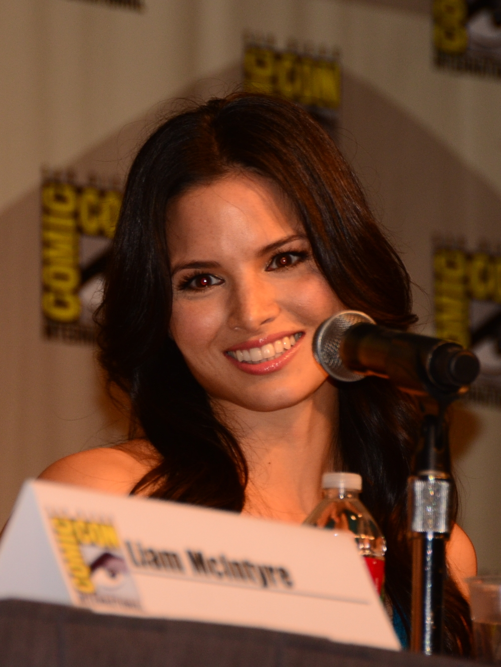 Katrina Law at Comic-con 2012